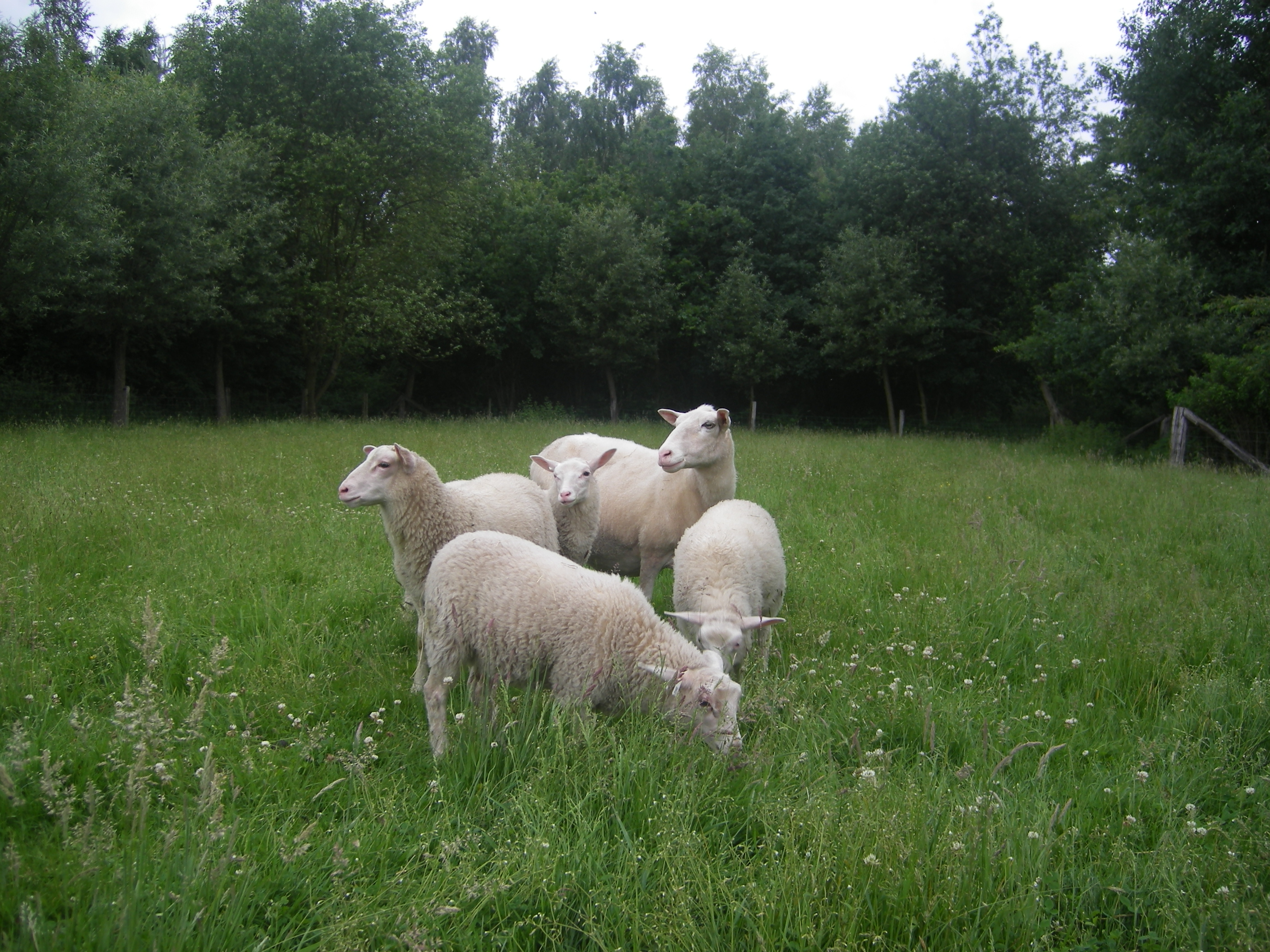 Ewe of the Flemish breed (Vlaams schaap) with her quadruplet